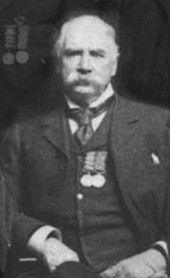 William Henry Pennington (1833-1923) in 1890 wearing his Crimean War medals